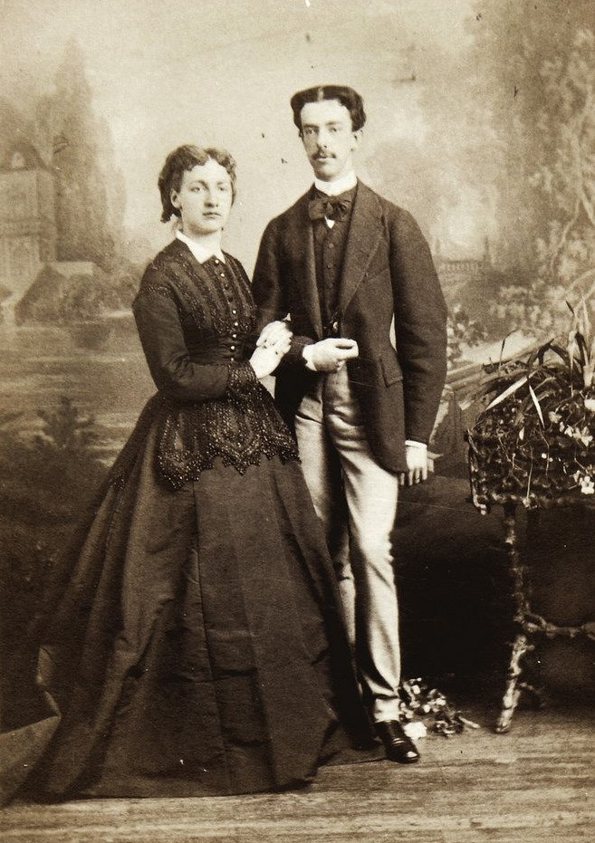 Maria Vittoria dal Pozzo with her husband, Amadeo I of Spain